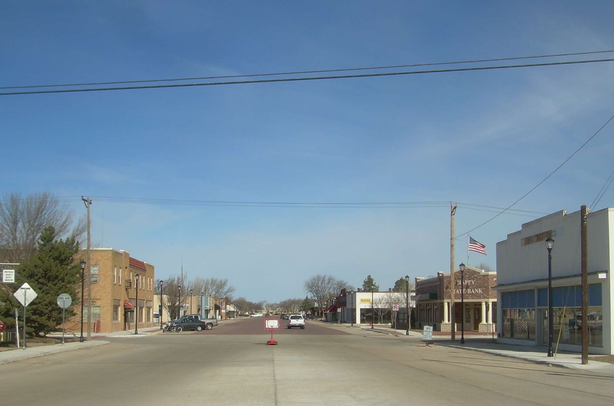 Downtown Stratford, Texas.